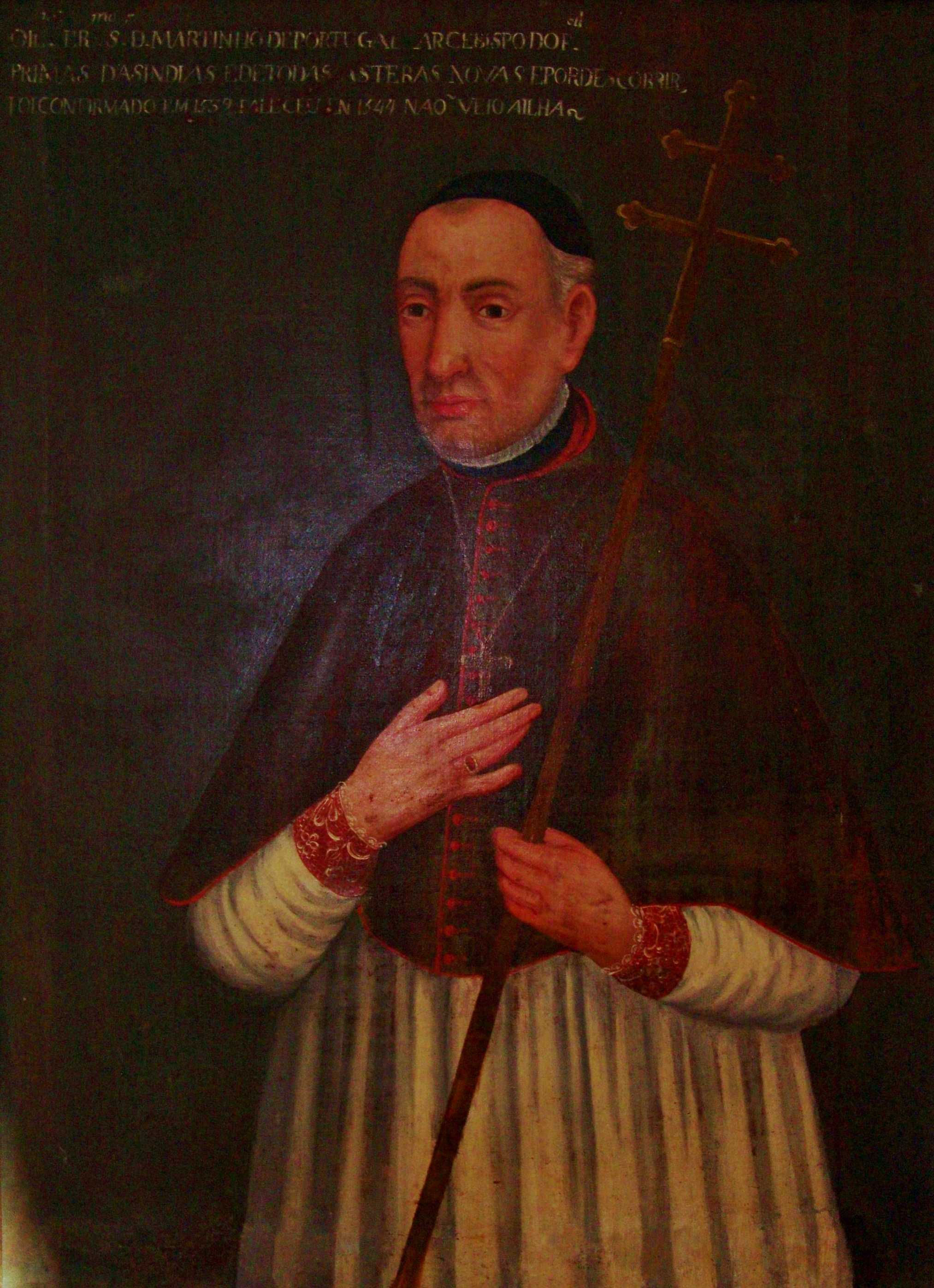 D. Martinho de Portugal (1485-1547), archbishop of Funchal and Primate of the Indies and All New Lands, Charted and Uncharted